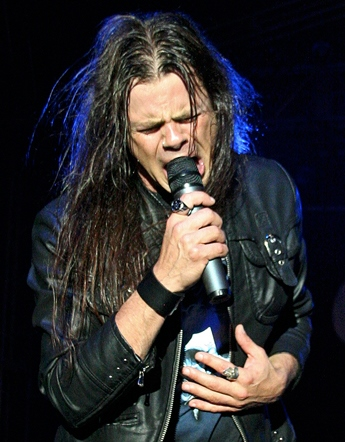 Todd singing at the Halfway Jam in Royalton MN on July 28th 2012. His first concert with Queensryche under the name Queensryche. Photo by Michael B. Lindgren